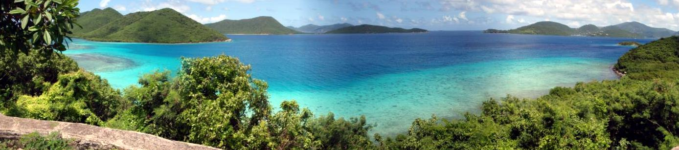 View of Leinster Bay from Annaberg